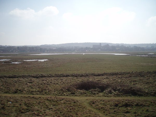 Salthouse Marshes Salthouse Marshes from Little Eye, with Salthouse village in the background.